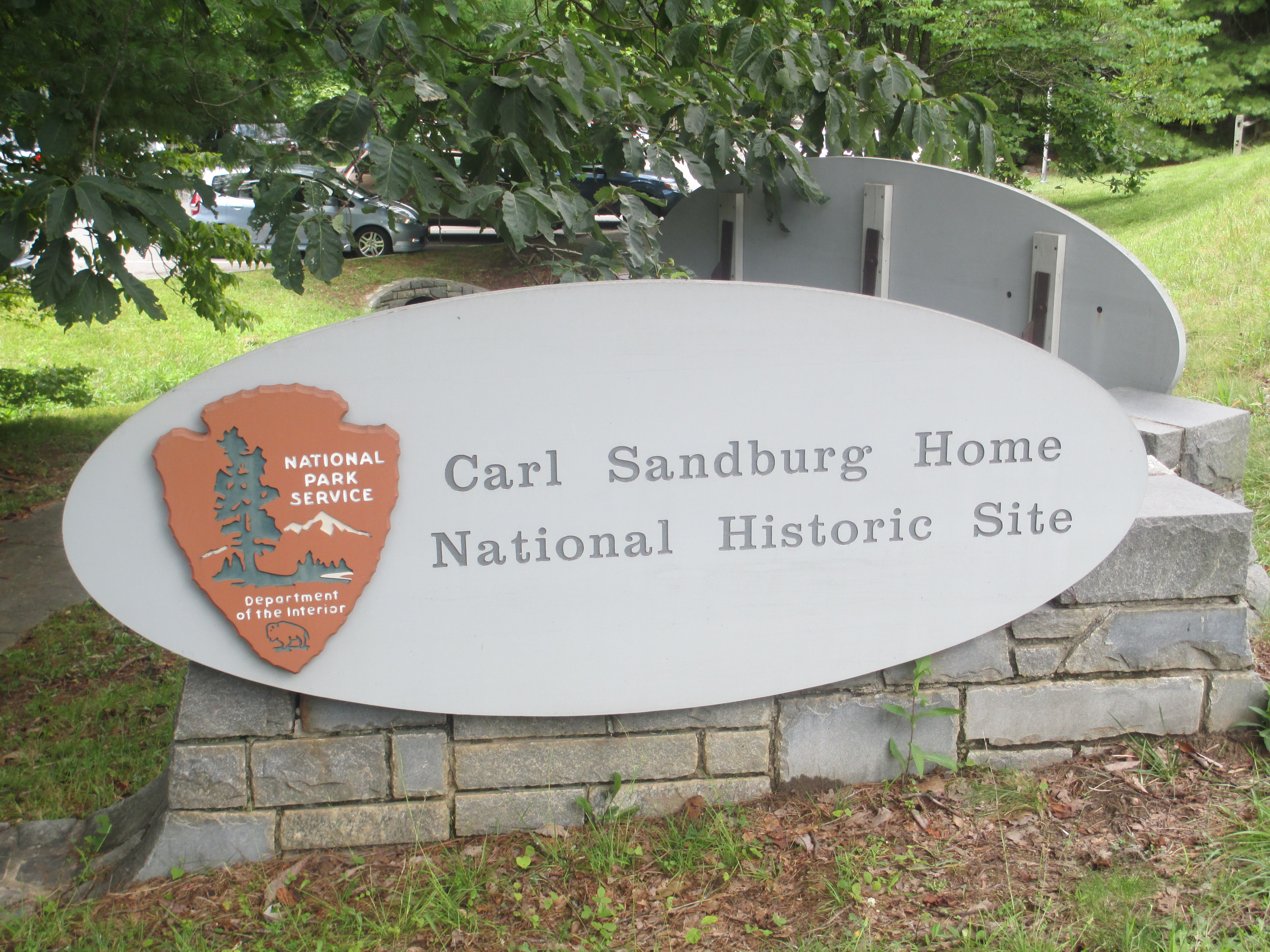 I took photo of Carl Sandburg National Historic site sign with Canon camera.